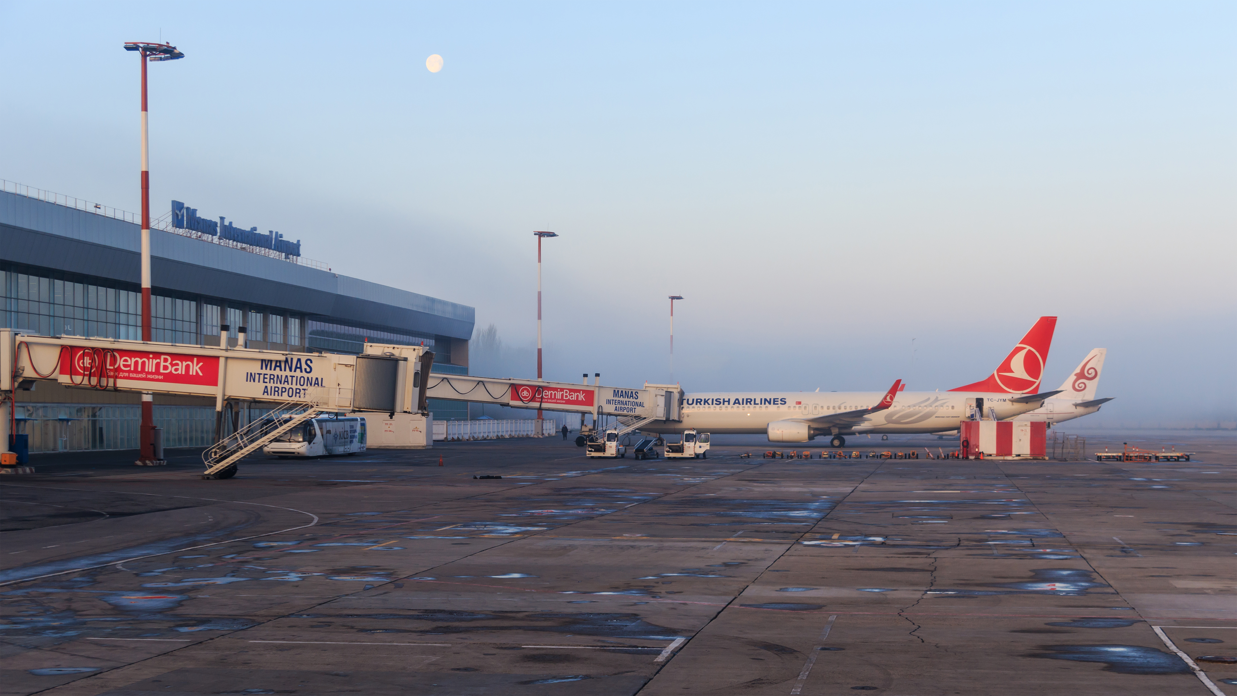 Manas International Airport in Bishkek, Kyrgyzstan. View behind the terminal building.